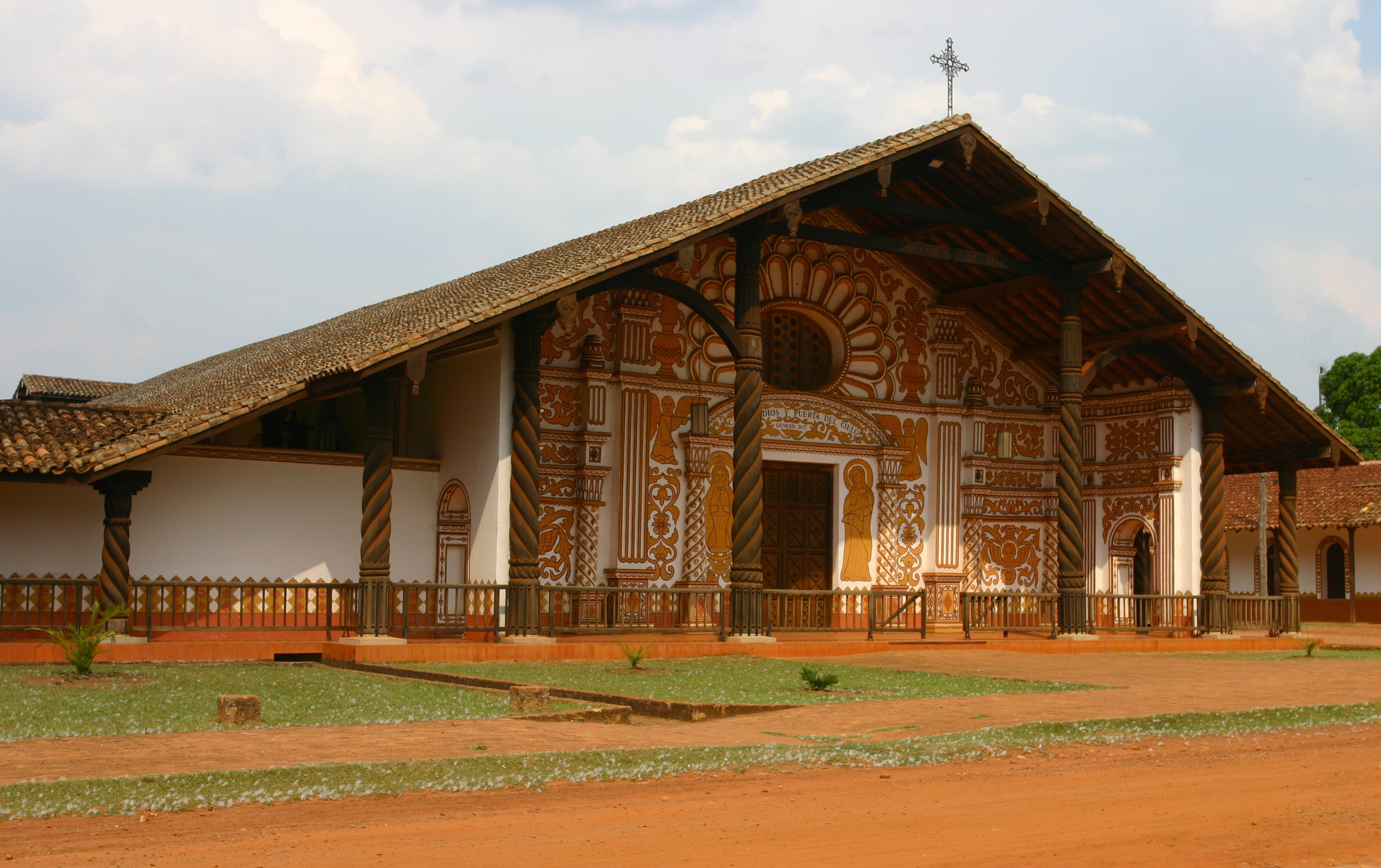 Cathedral, Concepción, Bolivia